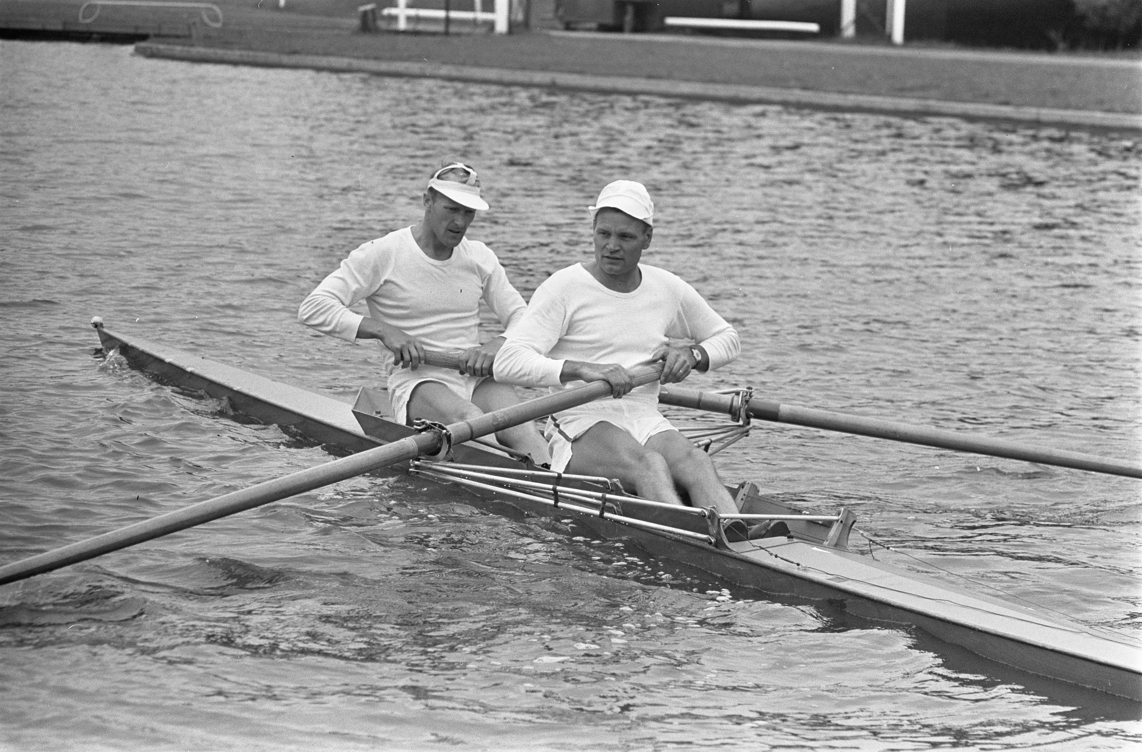 Training Europese roeikampioenschappen, Finse twee zonder stuurman